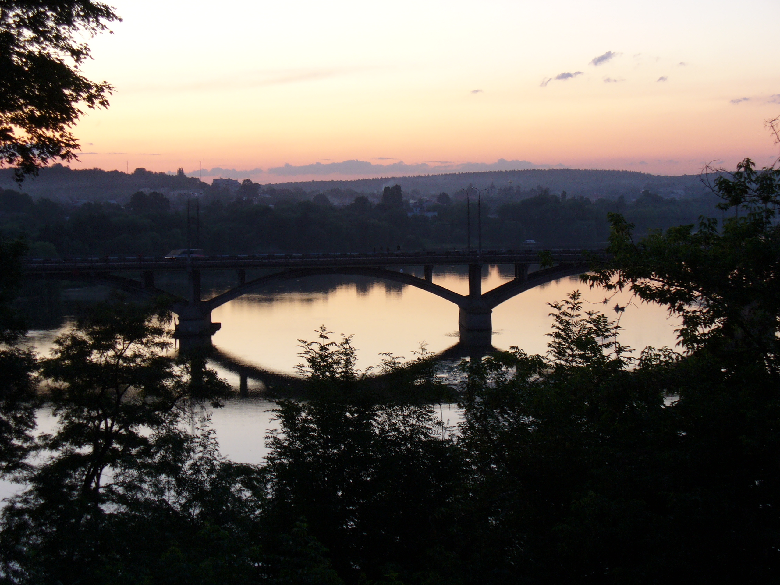 The Southern Bug river. Ukraine, Vinnitsa